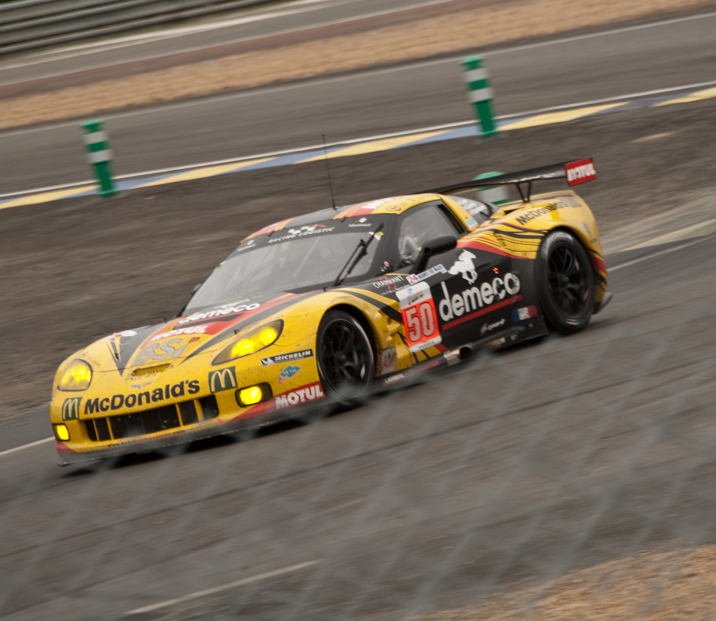 Chevrolet Corvette C6.R from the team Larbre Competition at the 24 hour race in Le Mans 2011, finished 1st in class (LM GTE Am) and 20th overall after 302 laps